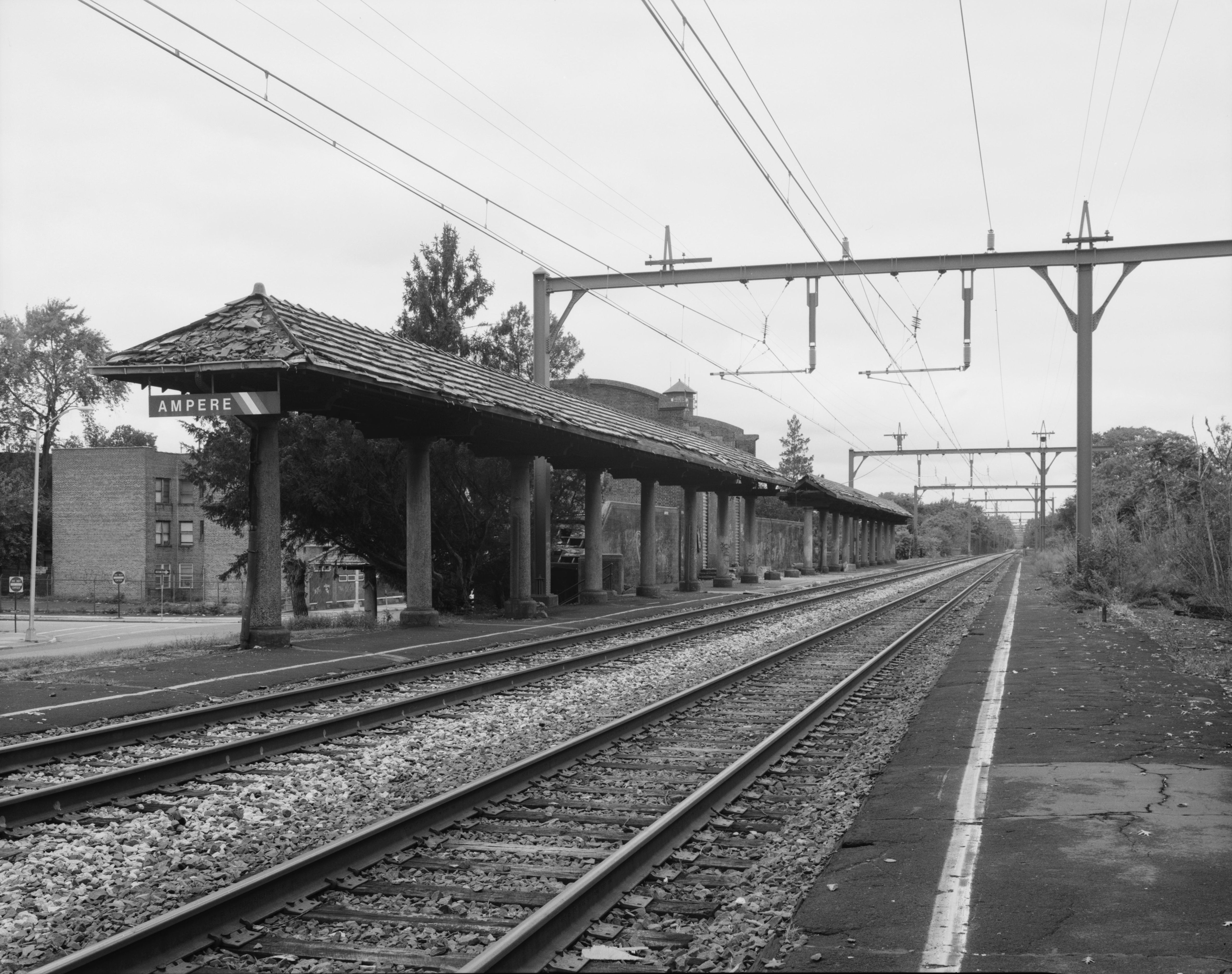 A view of the mostly demolished Ampere New Jersey Transit station in East Orange, New Jersey.